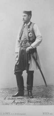 Prince Bojidar Karageorgevitch (1862-1908) in costume